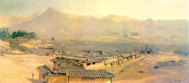 The cityscape painting of Seoul painted by Hubert Vos in 1899, Oil painting.